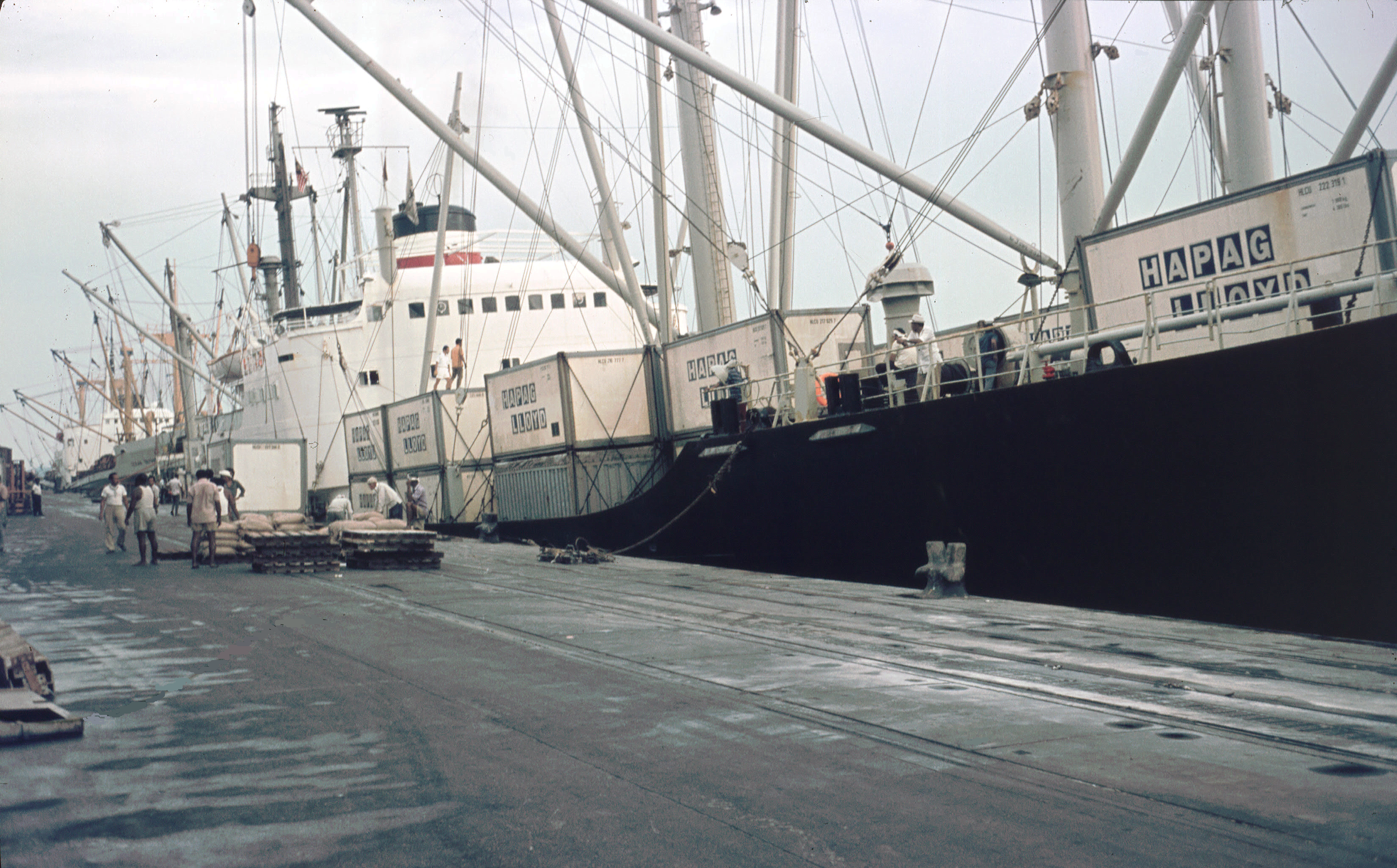 Hapag-Lloyd cargo ship Saarland in the port of Penang, Malaysia - 1975